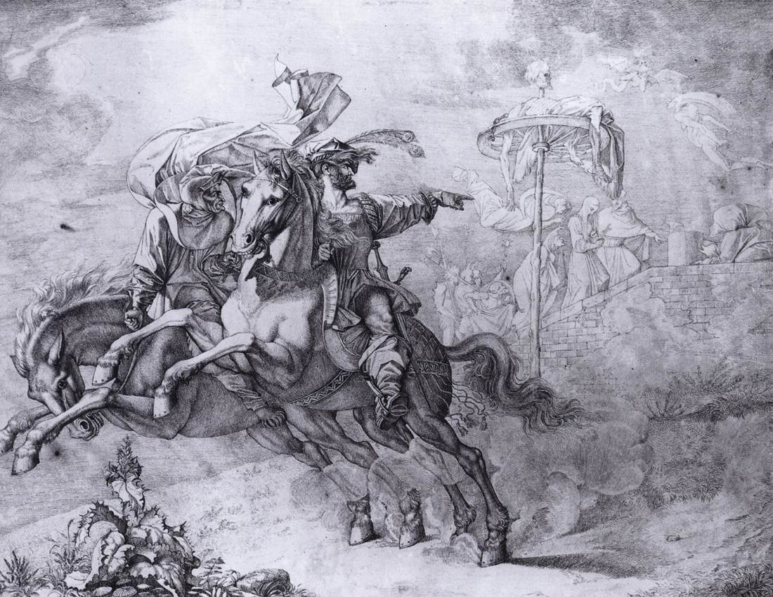 The Vision of the Rabenstein